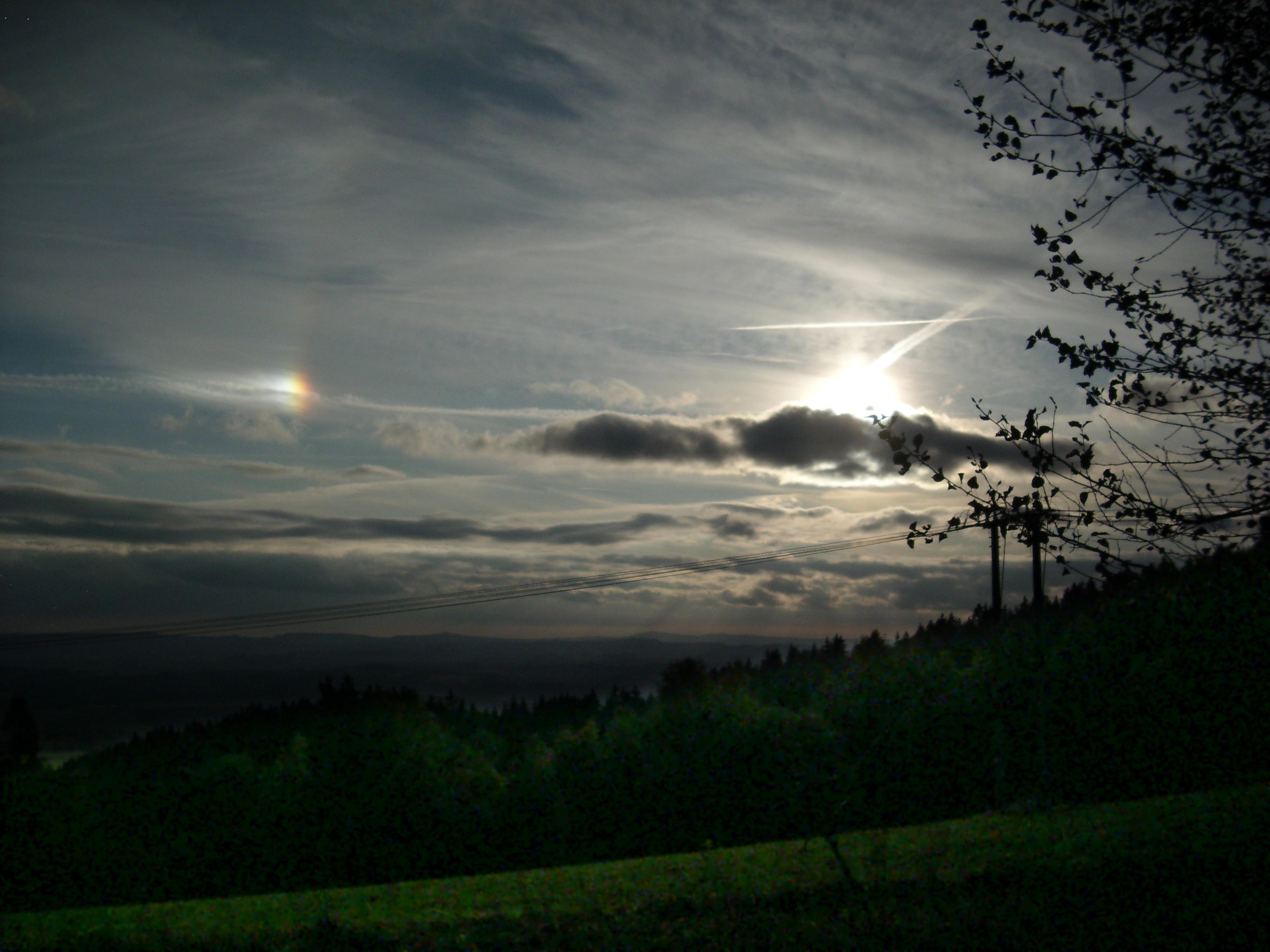 Halo Efect – Giant Mountains